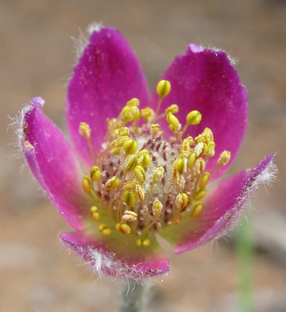 Taken at Misery Bay Provincial Park, Manitoulin Island, Canada